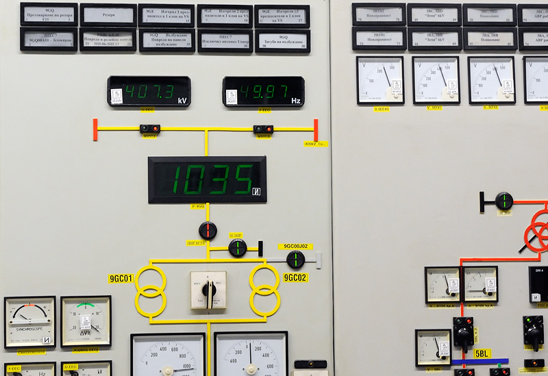 An indicator in the control room of Unit 5 of the Kozloduy Nuclear Power Plant showing that Unit 5 is working at 100% of its capacity, producing 1000 MW of power.